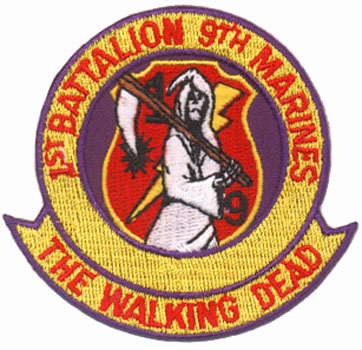 The insignia of the United States Marine Corps 1st Battalion 9th Marines.